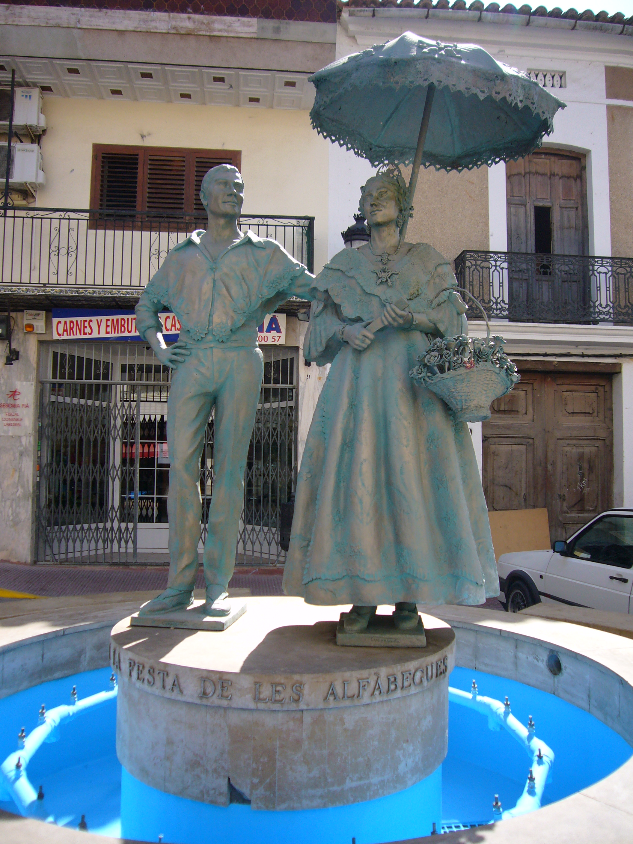 Monument to the party of basil in Bétera (Valencia province).